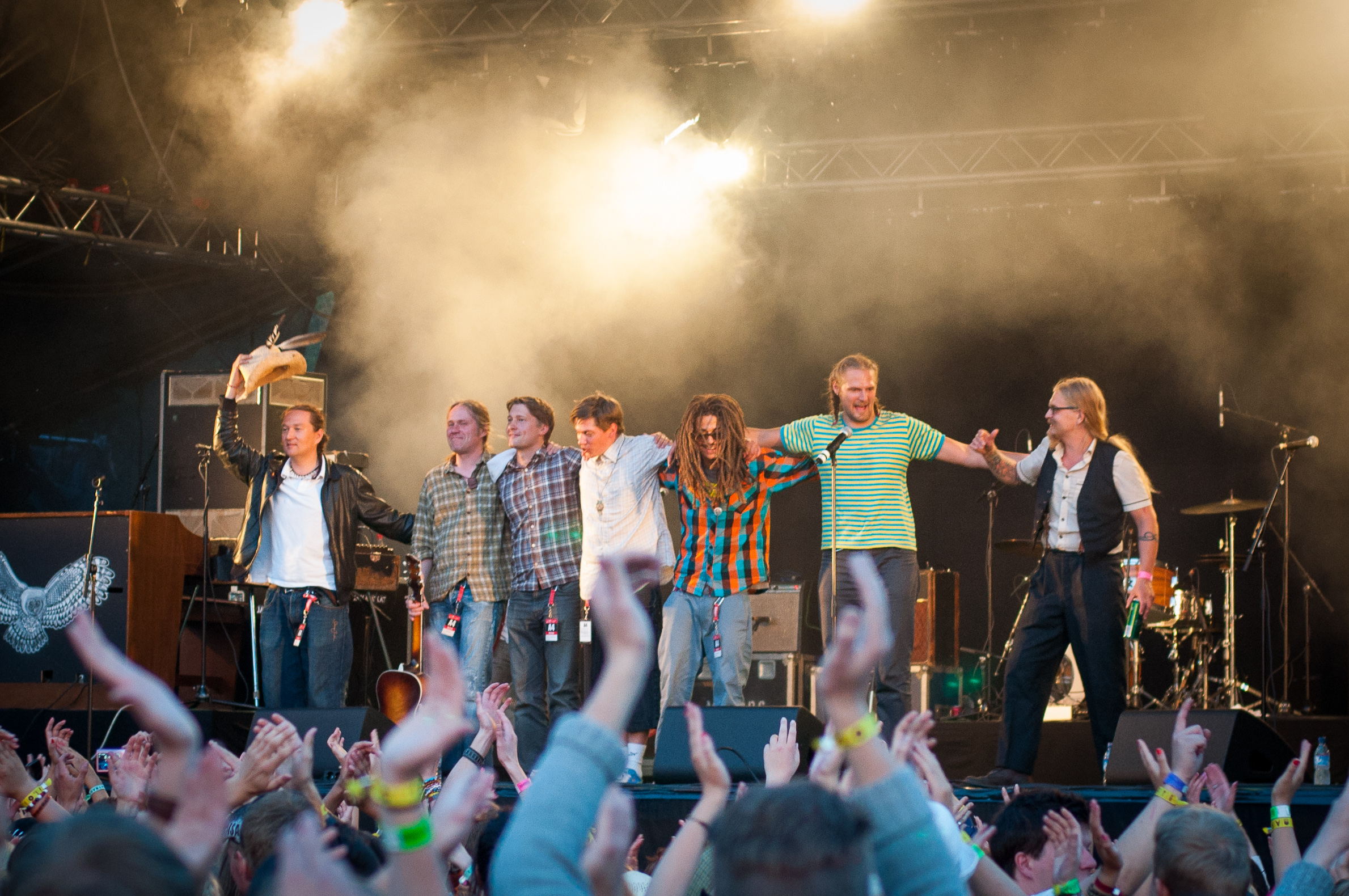 Elokuu performing at the 2012 Ilosaarirock festival in Joensuu, Finland.